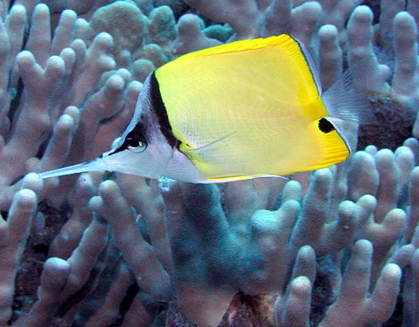 Longnose Butterflyfish, Papua New Guinea. Image taken by Clark Anderson/Aquaimages. Category:Butterflyfish images